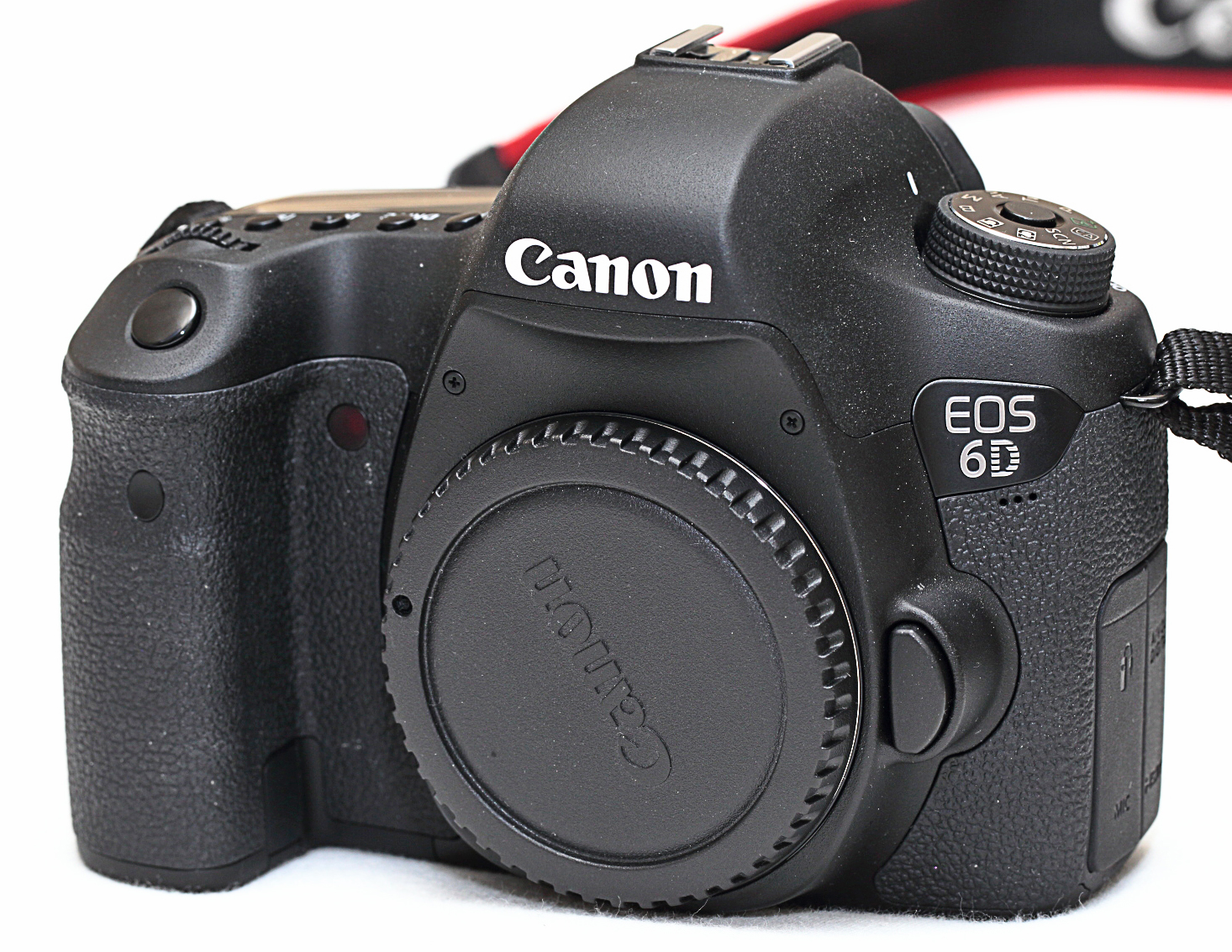 Canon EOS 6D, digital SLR announced in September 2012.